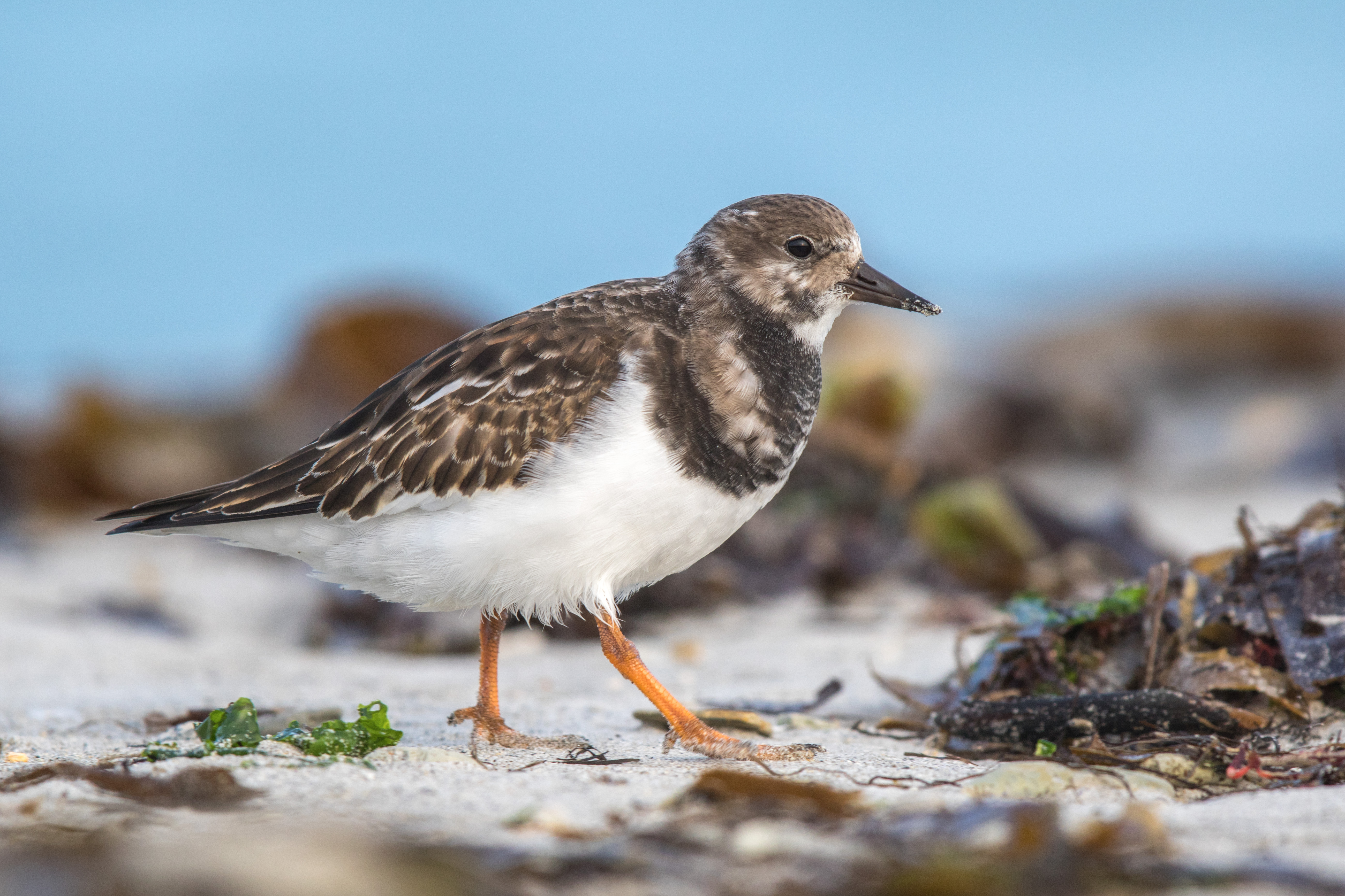 Ruddy turnstone